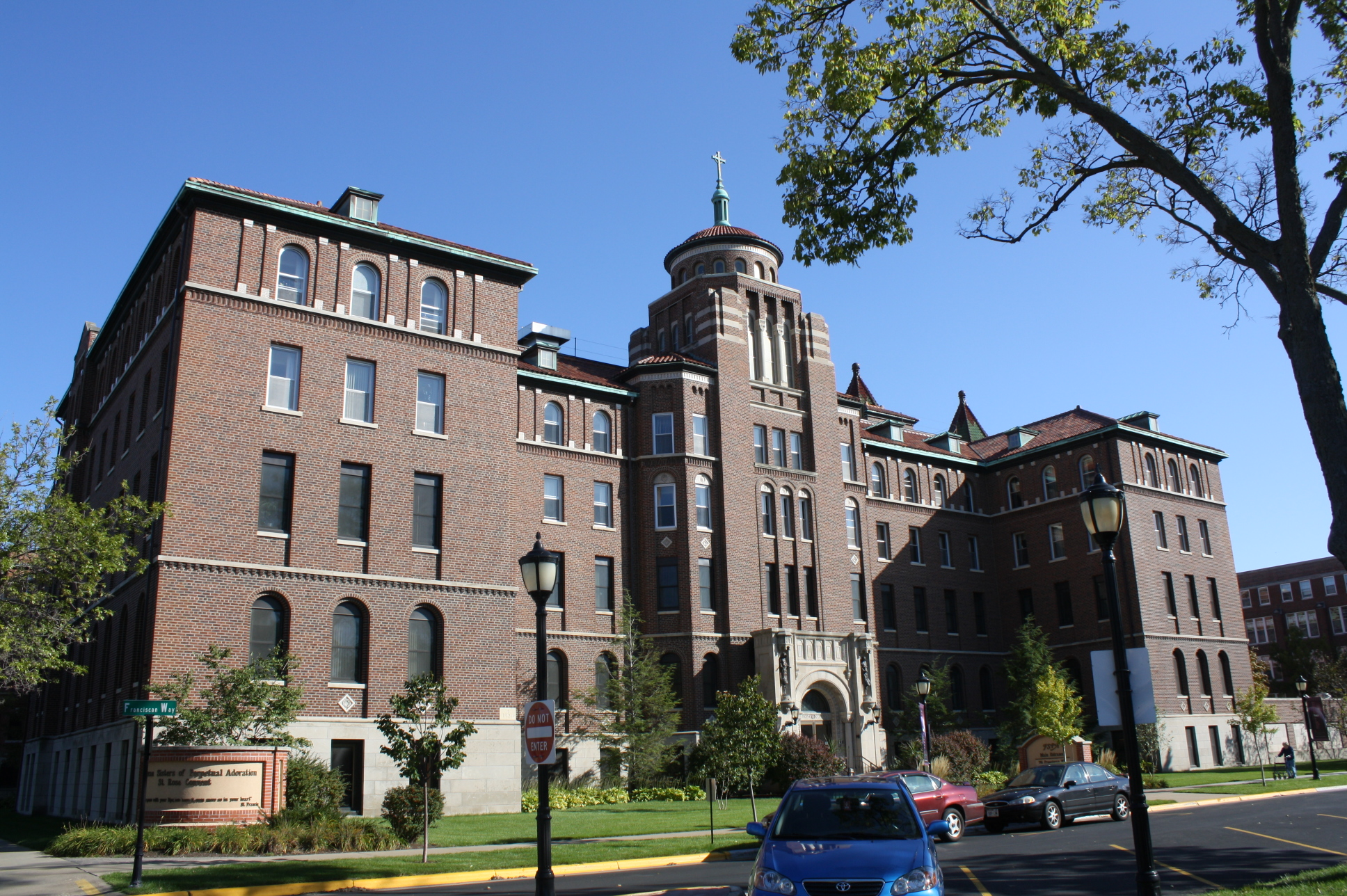 The exterior of the St. Rose of Viterbo Convent. It is listed on the National Register of Historic Places. The building was built between 1900 and 1905.